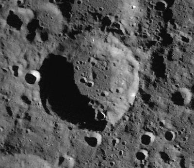 LROC WAC image (No. M105304866ME). Calibrated by LROC_WAC_Previewer.